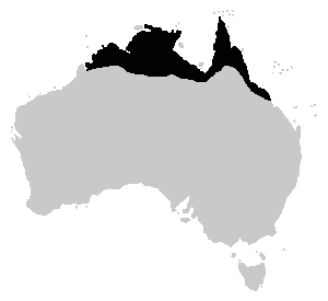 Distribution of the Northern Dwarf Tree Frog (Litoria bicolor). This species has also been recorded on the Aru Islands but research on call structure or genetics is needed to confirm that the frog is Litoria bicolor. User:Froggydarb/GFDL-self